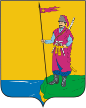 Plastunovskoe (Krasnodar krai), coat of arms